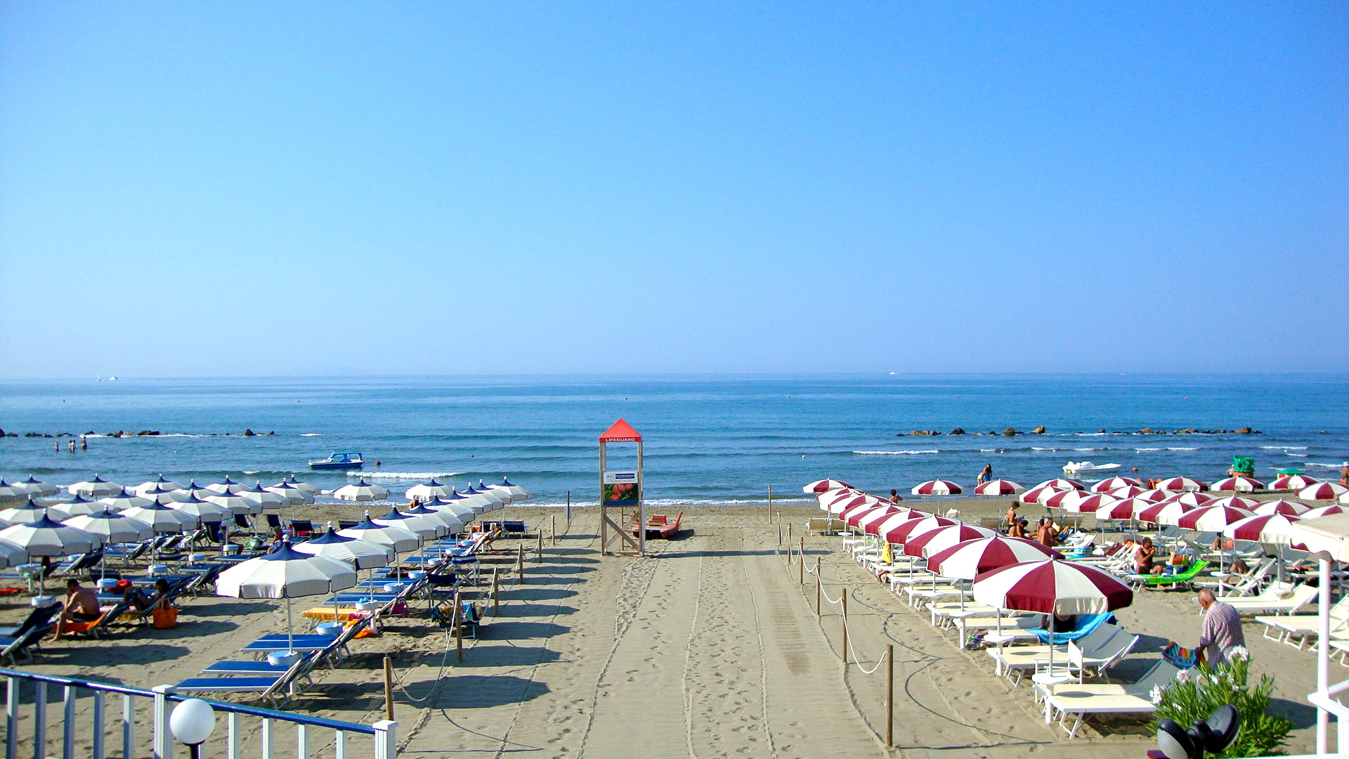 Castiglione della Pescaia - Grosseto - Seaside